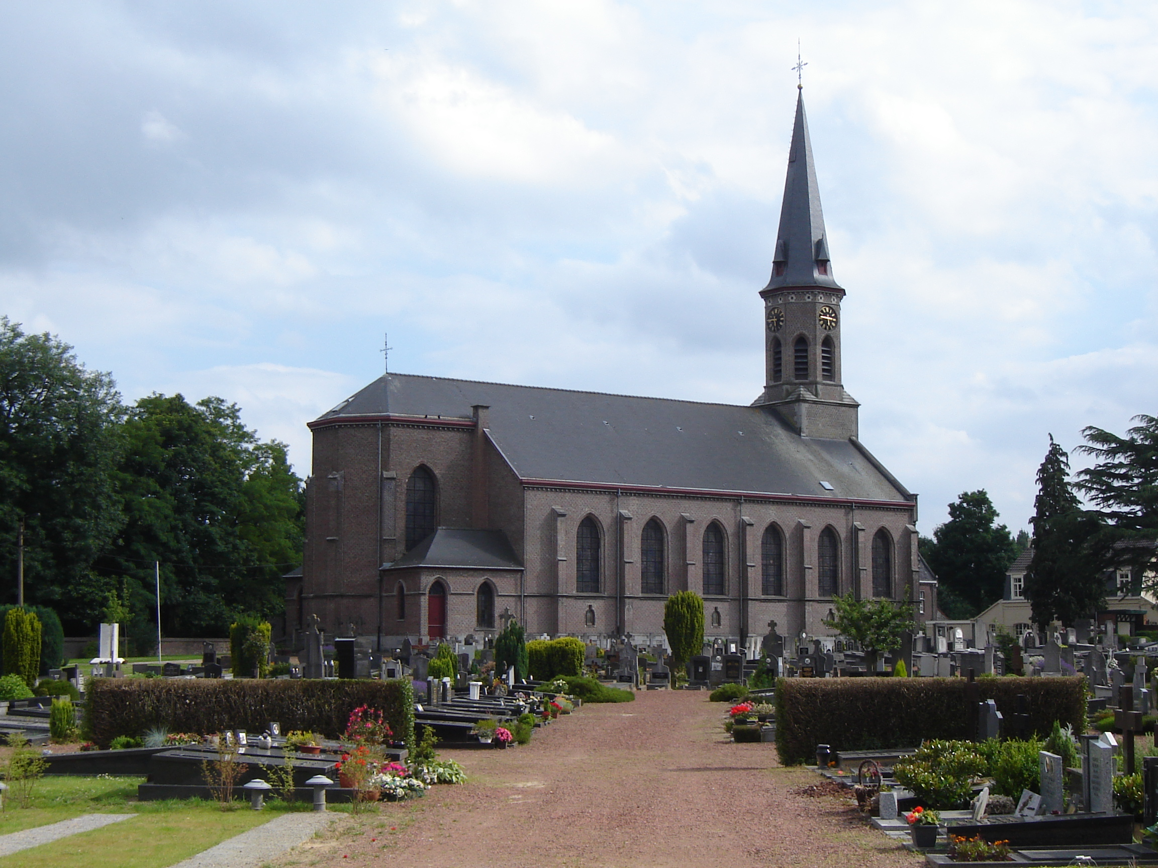 Church of Saint Dionysius in Sint-Denijs-Westrem. Sint-Denijs-Westrem, Gent, East Flanders, Belgium